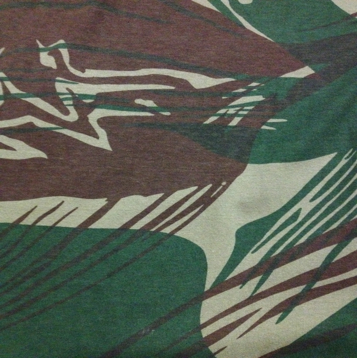 Description: Foliage-patterned camouflage introduced by the Rhodesian Security Forces and now used by the Zimbabwe National Army.